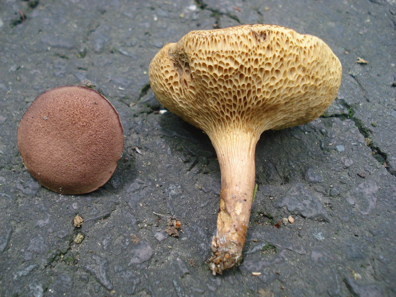 Fruit bodies of the bolete fungus Bothia castanella (Peck) Halling, Baroni, Binder. Specimens collected in Moon Lake Park, Pennsylvania, USA.